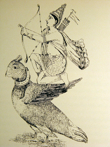 Kamadeva - Hindu deity of kama